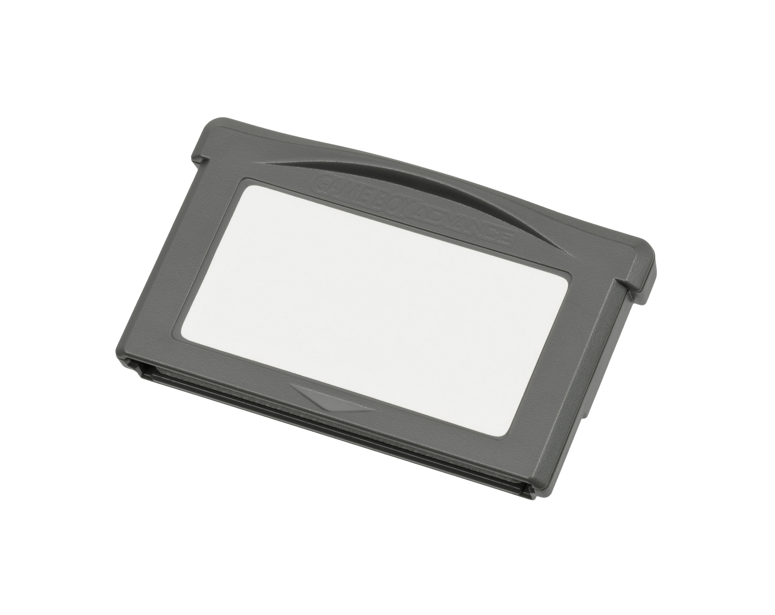 A blanked-out game cartridge for the Nintendo Game Boy Advance handheld console.